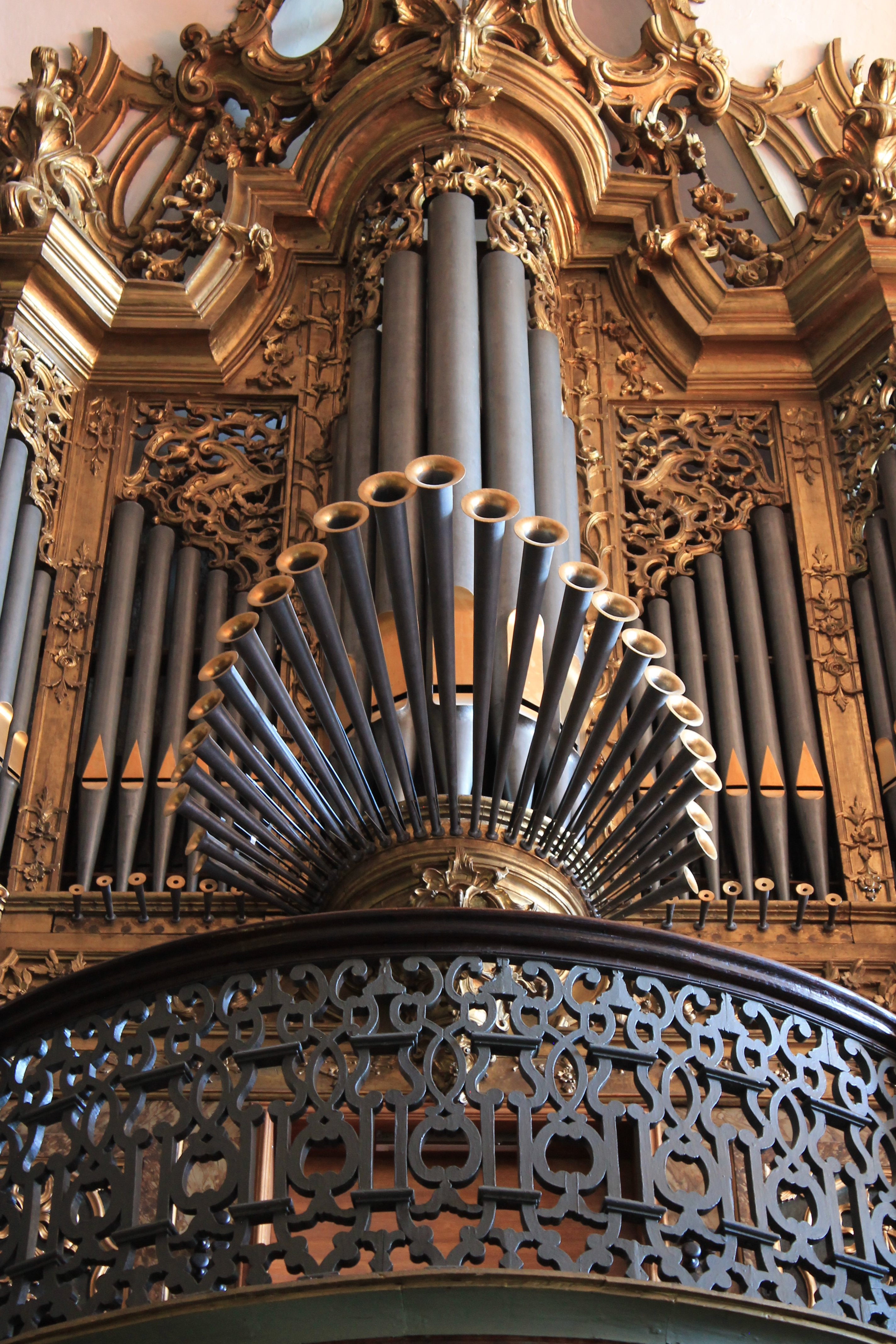 Pipe organ inside Igrejas dos Carmelitas e do Carmo, Porto